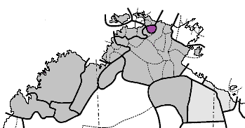 Giimbiyu (purple), among other non-Pama-Nyungan languages (grey)